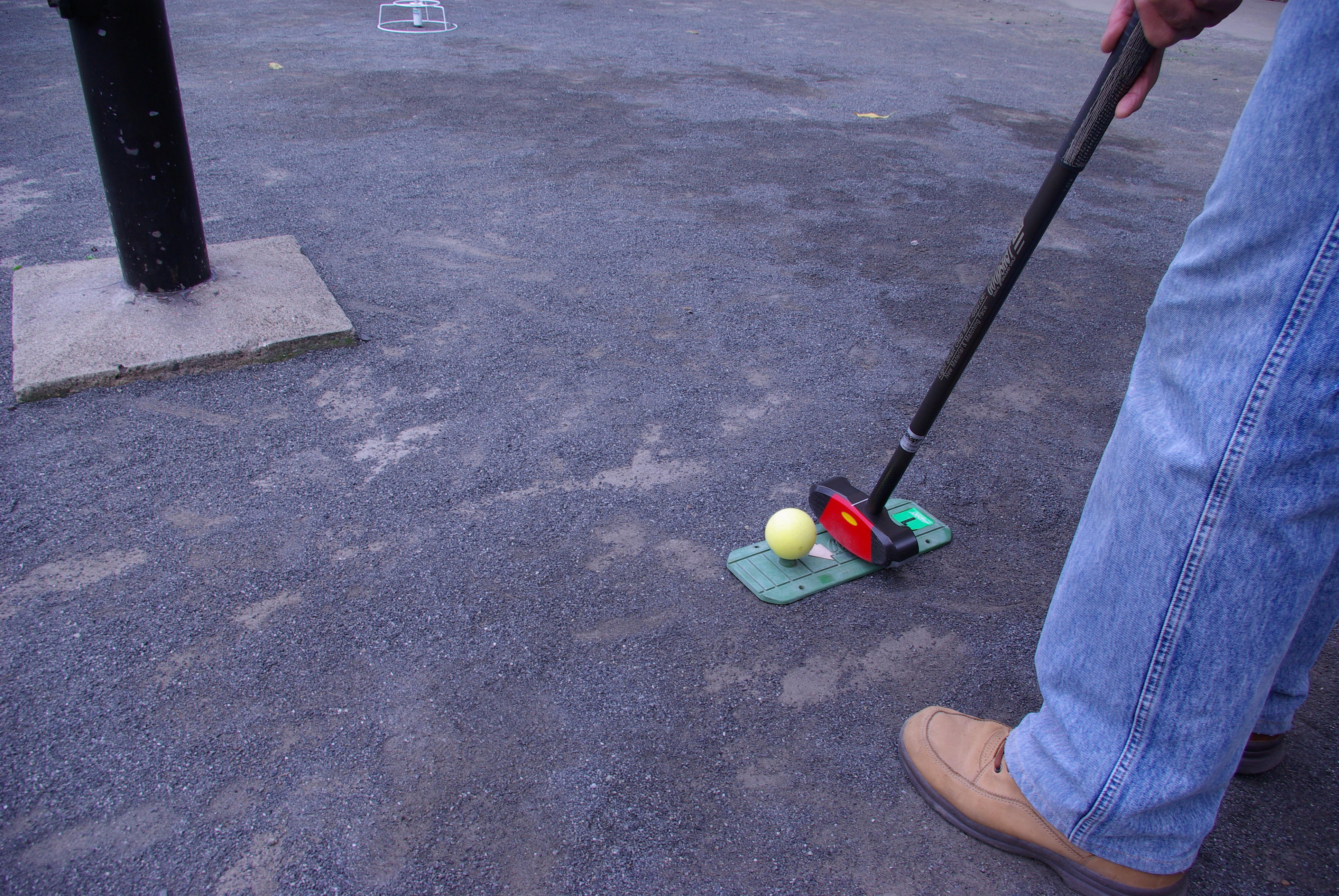 stance of groundgolf.